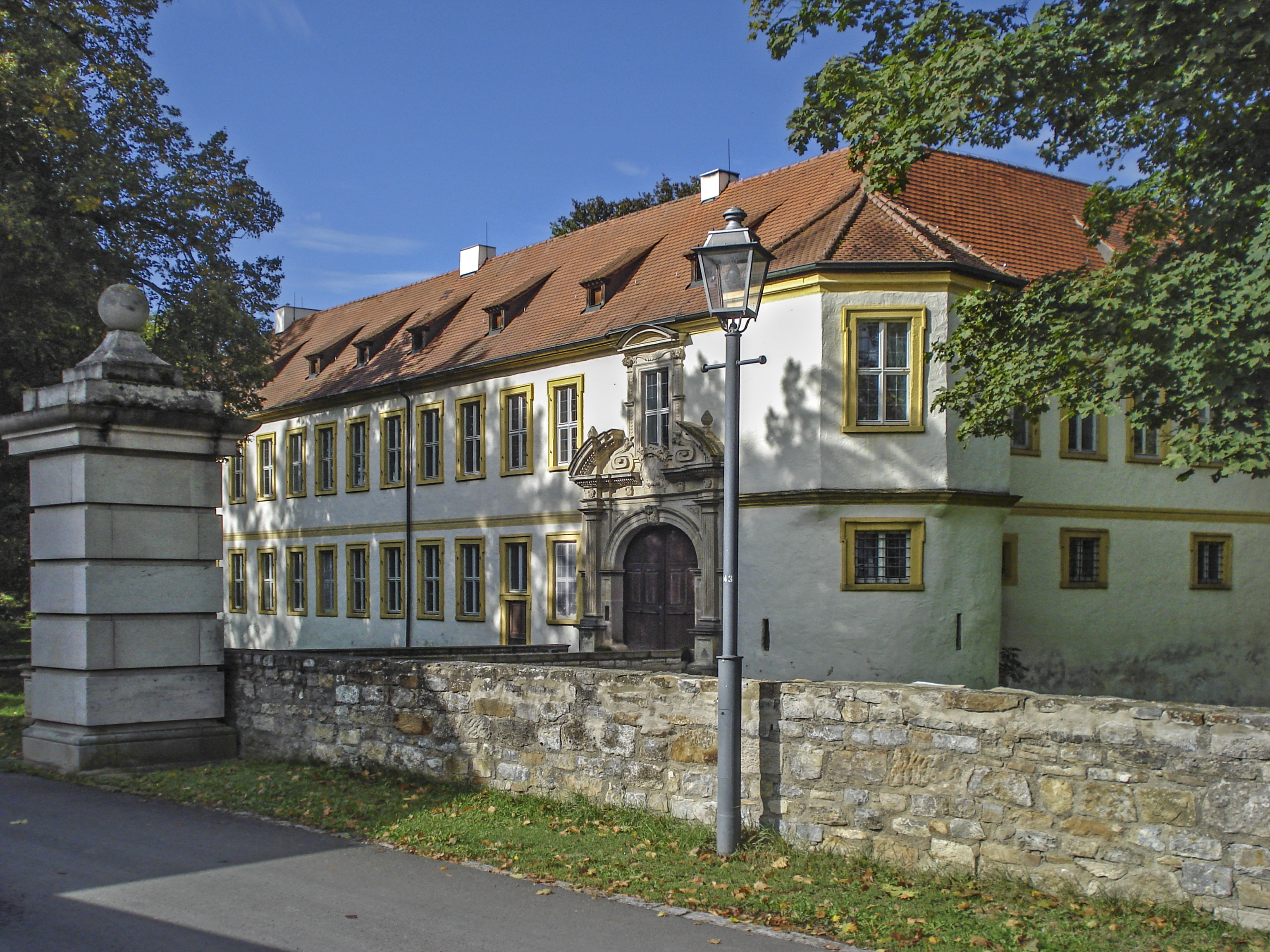 Wonfurt, Seckendorff-Schloss